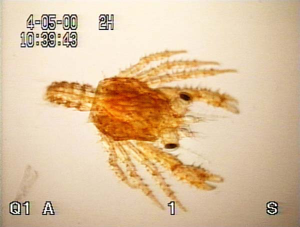 glaucothoe larval stage of king crab